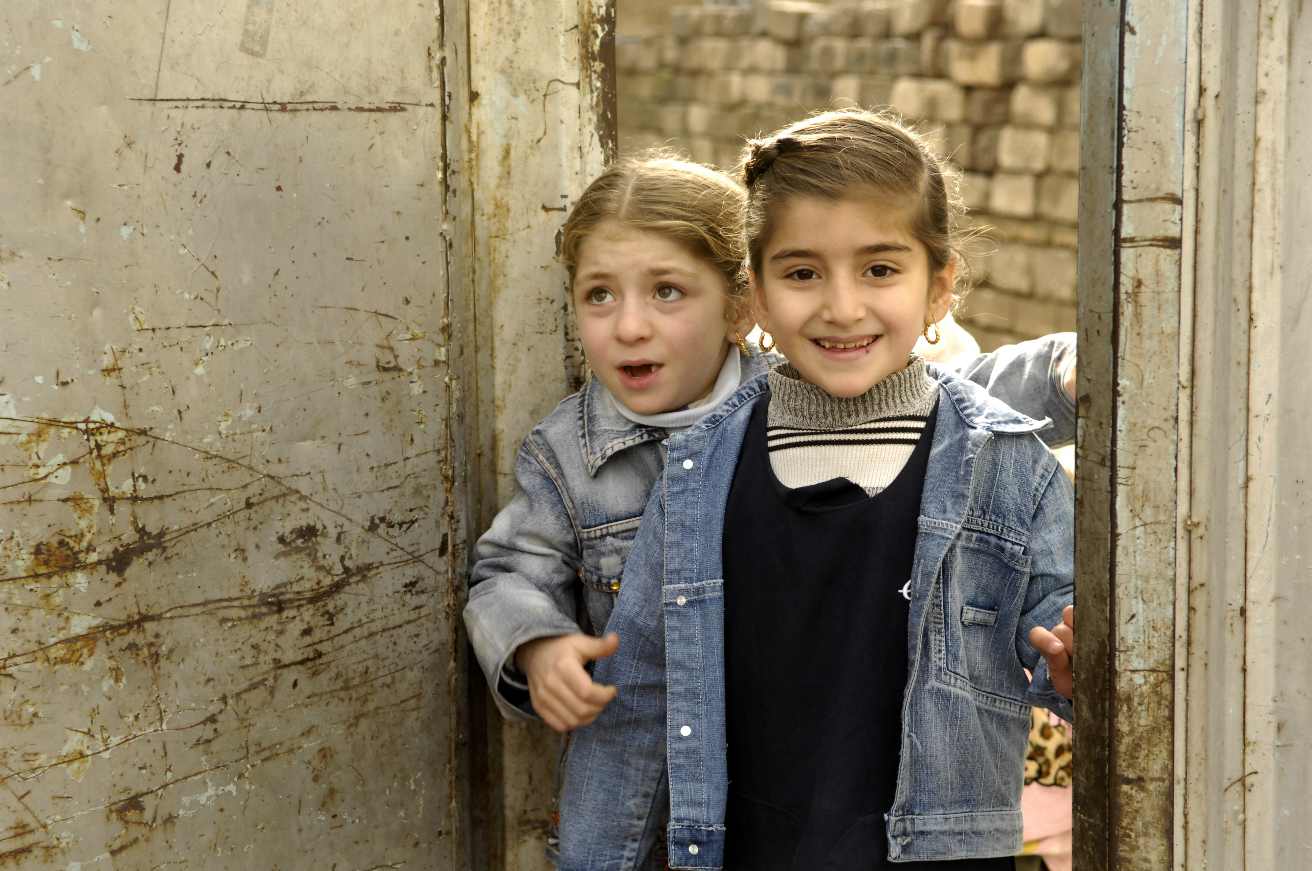 Two Iraqi girls infront of their house in Kirkuk, Northern Iraq